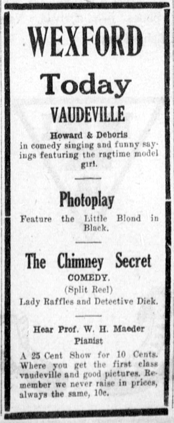 The Chimney's Secret is a 1915 silent drama film directed by and featuring Lon Chaney. This is a contemporary newspaper advert.